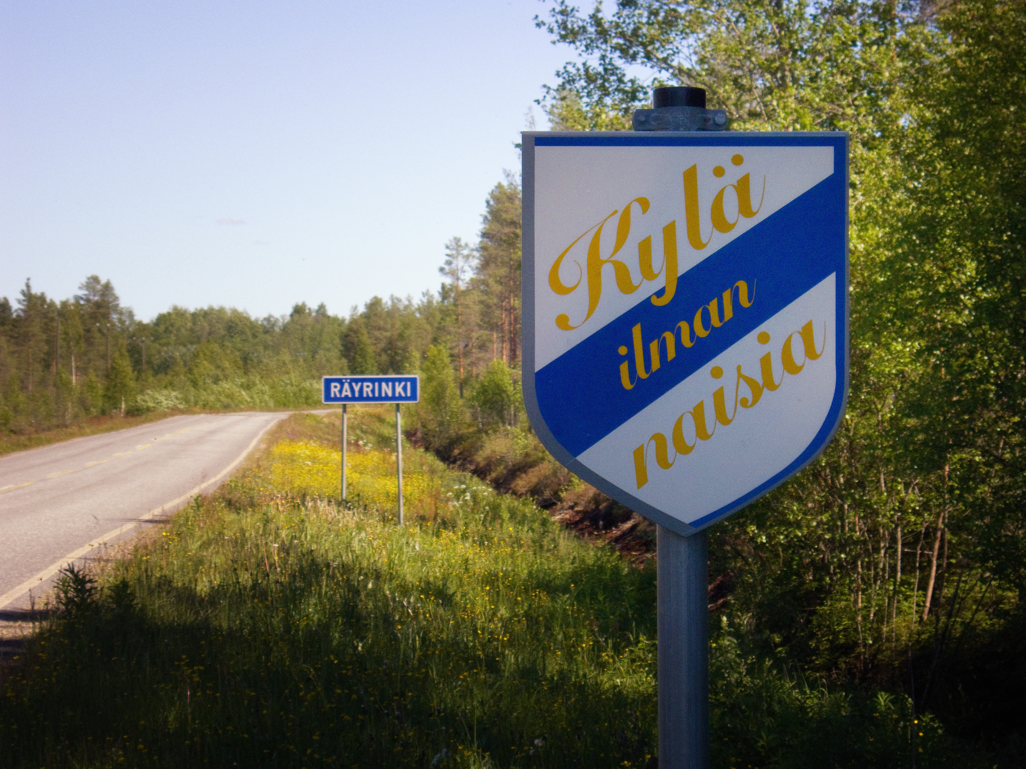 Sign for Finnish TV program Kylä ilman naisia on Regional road 751 in Räyrinki, Veteli, Finland